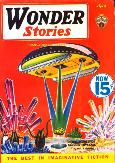 Cover of Wonder Stories, March-April 1936